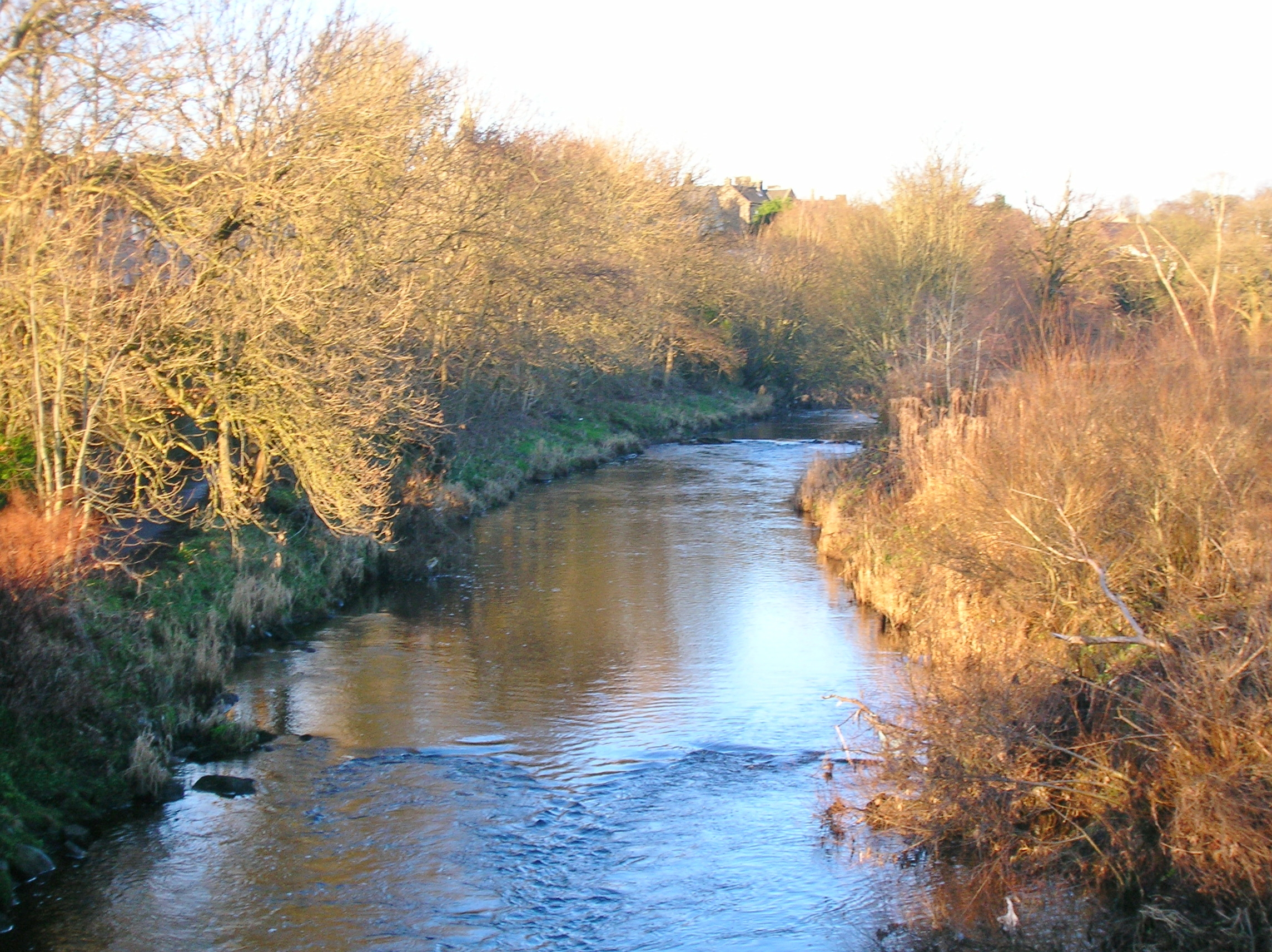 The Rive Garnock upstream of the Lovers' Bridge, Dalry, North Ayrshire, Scotland.